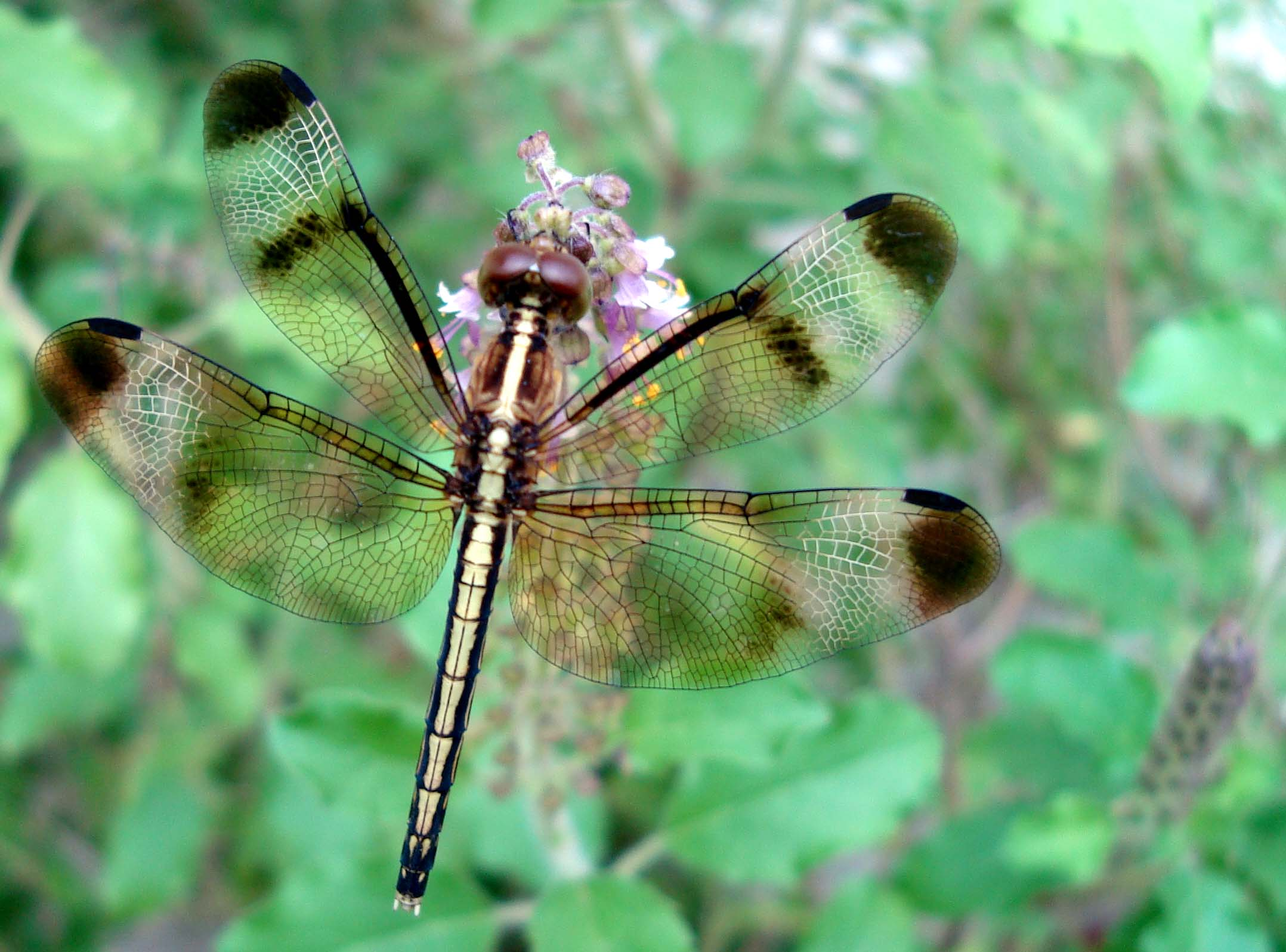 Neurothemis tullia - Pied paddy skimmer Female.